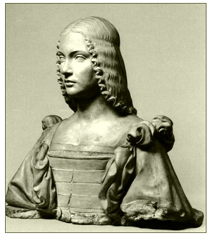 Bust of a woman (presumed portrait of Isabella d'Este 1474-1539)